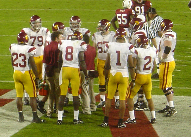 The University of Southern California Trojans football team huddles before a play on November 4, 2006. In the photo are the lead scorers for the 2006 Trojans: #23, running back Chauncey Washington; #8, wide receiver Dwayne Jarrett; #1, wide receiver Patrick Turner; #2, wide receiver Steve Smith; #10, quarterback John David Booty (between Washington and Jarrett, facing right) as well as #79, offensive lineman Sam Baker; #67, center Ryan Kalil.